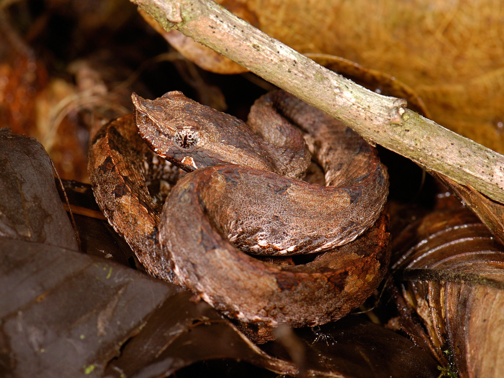 Rainforest hognosed pitviper (Porthidium nasutum) in Costa Rica.